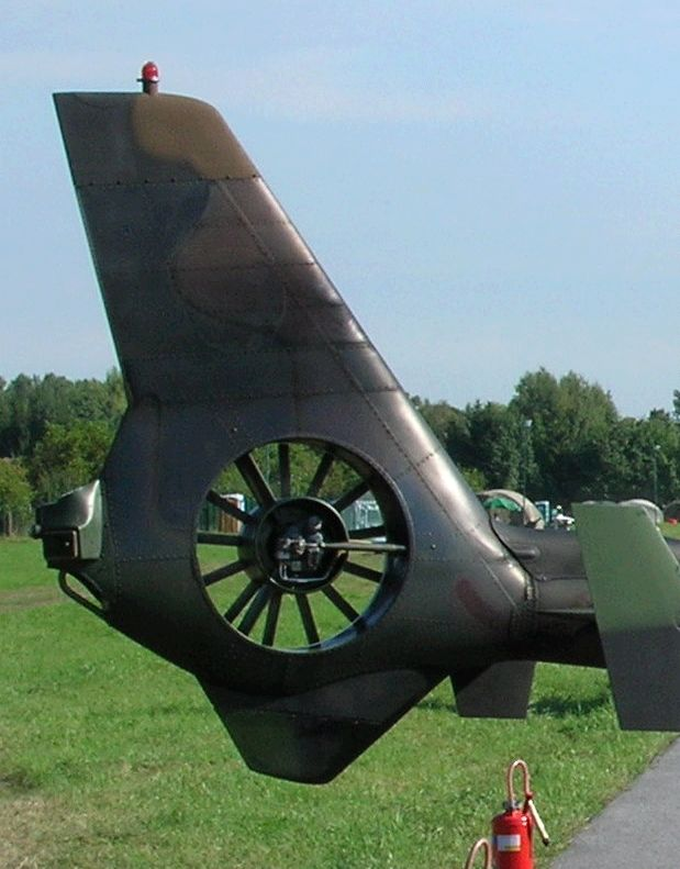 Fenestron tail rotor of an Aérospatiale Gazelle helicopter